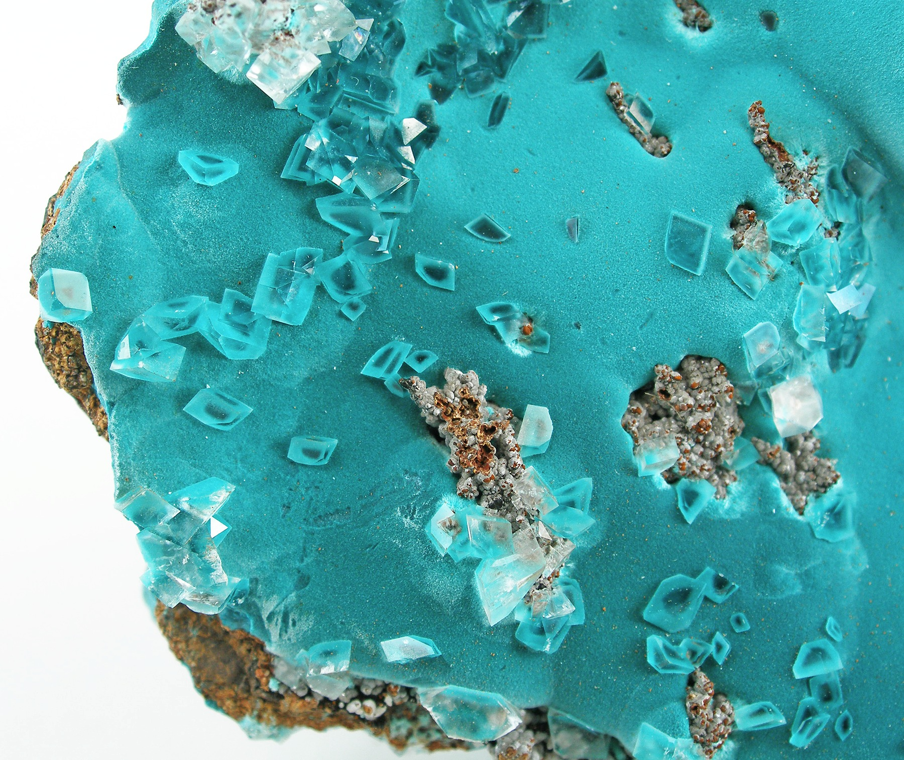 Calcite, Rosasite Locality: Ojuela Mine, Mapimí, Municipio de Mapimí, Durango, Mexico (Locality at ) Size: small cabinet, 9.1 x 7.4 x 2.4 cm Rosasite with Calcite An undulating, velvety carpet of richly colored, blue-green, rosasite on a matrix of solid limonite. Scattered about on the rosasite are glassy and gemmy, colorless rhombohedra of calcite, to .5 cm across. The specimen has an ethereal beauty about it and is "flowing" in person in a way the photos do not describe very well. Worldwide, rosasite is a rare species and these are rich specimens.